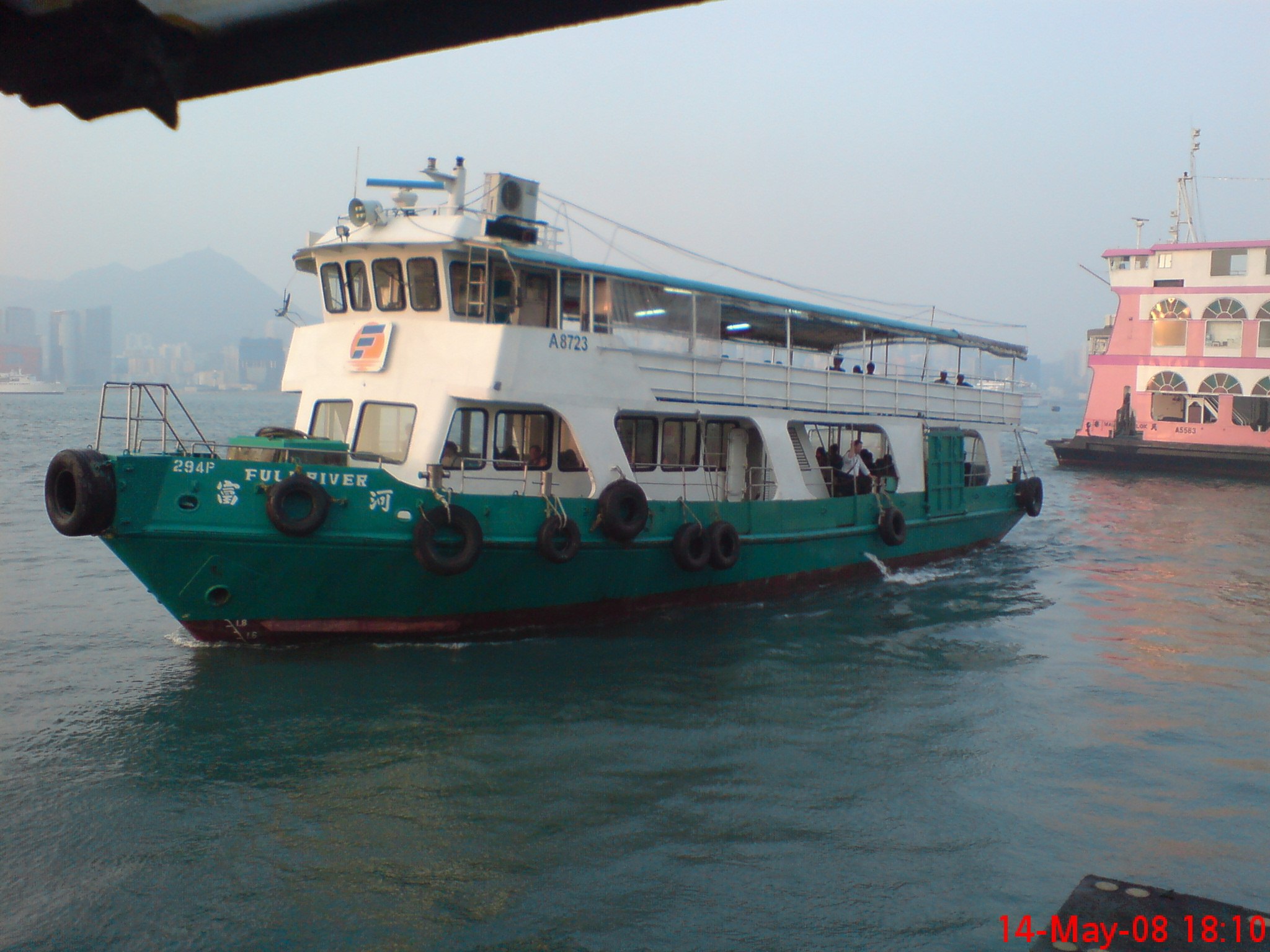 Image of Full River taken at North Point ferry in May,2008 and MAN LOK ferry IMO Number: 8214188 MMSI Number: 477995062 Callsign: VRS4320 Length: 64 m Beam: 13 m